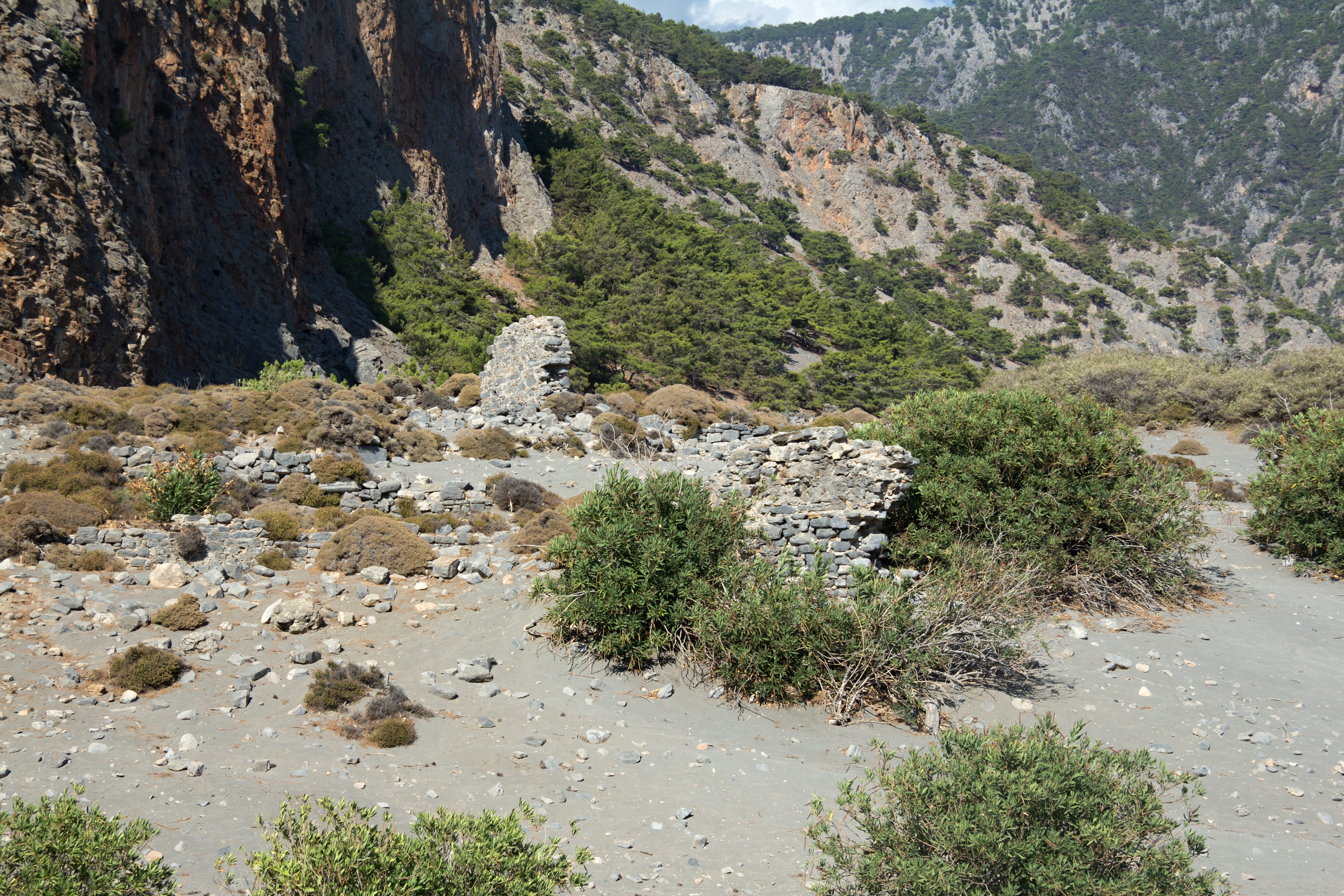 Tarra, the remains of Hellenistic town at Agia Roumeli, Crete.